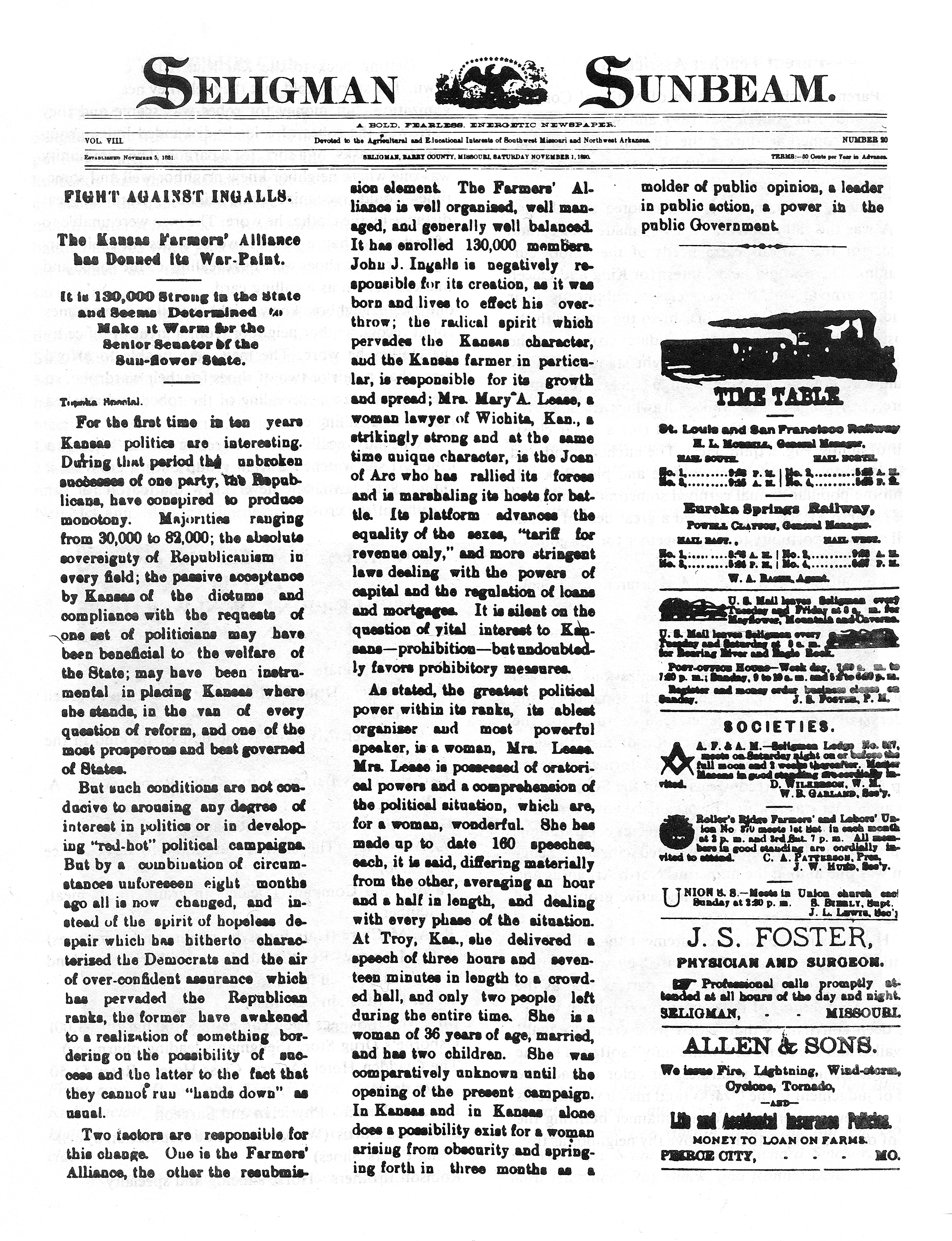 Front page of Seligman Sunbeam newspaper, Seligman Missouri, November 1st, 1890.